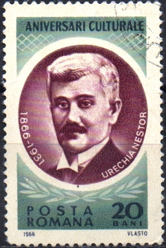 Postage stamp featuring Nestor Urechia.